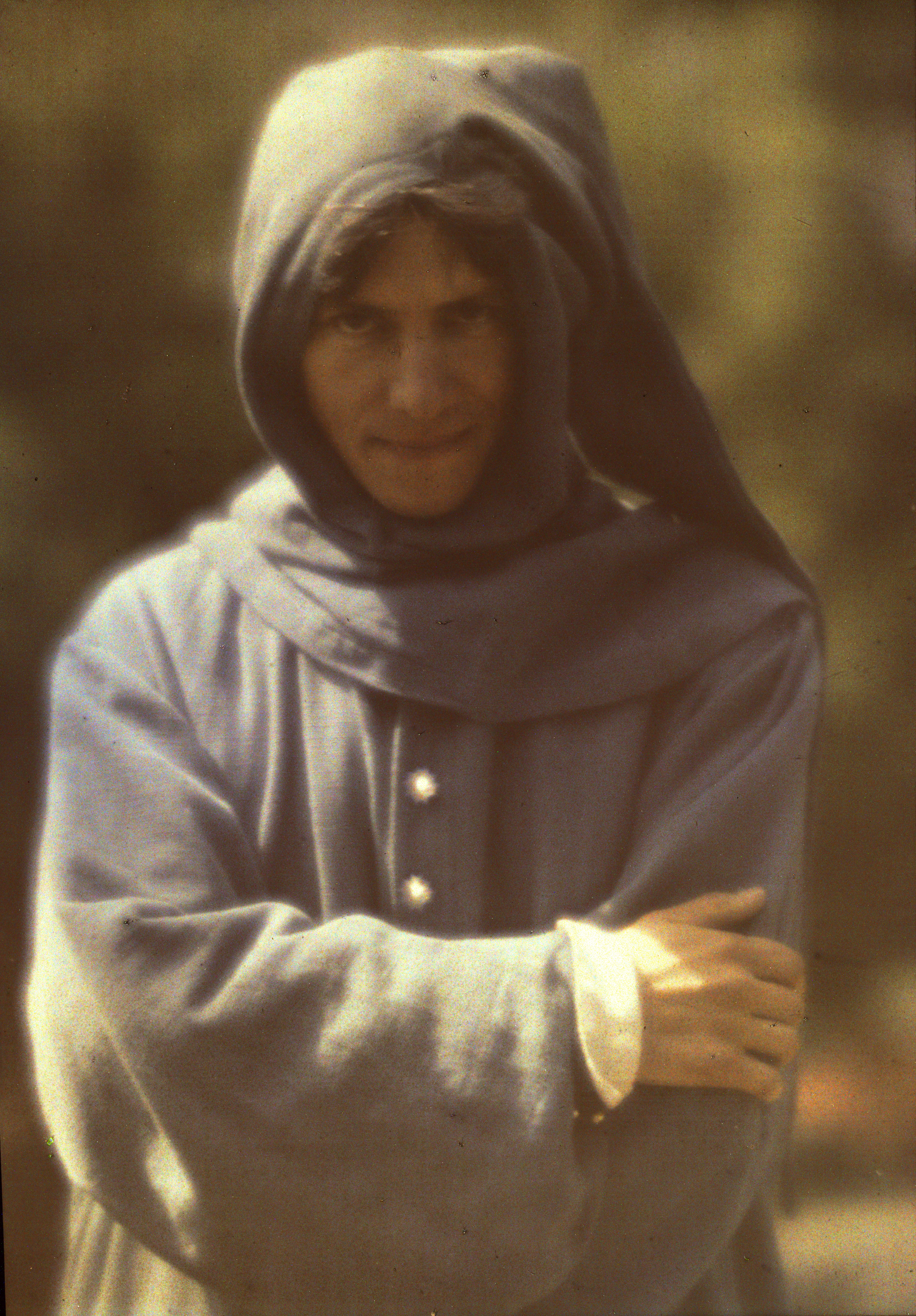 Percy MacKaye (1875–1956) as Alwyn, the poet, a character in Percy MacKaye's play Sanctuary: A Bird Masque, in rehearsal for first performance at the Meriden Bird Club sanctuary dedication in New Hampshire. The original is a photograph: autochrome, color; 5×7 in. The play, written in verse, told of a hunter’s redemption by his prey, the Bird Spirit. At a time when demand for feathers in hats and other products was harming entire species, the play helped promote the wild bird conservation movement.[1]